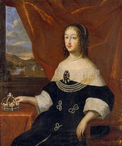 Portrait of Christine of France